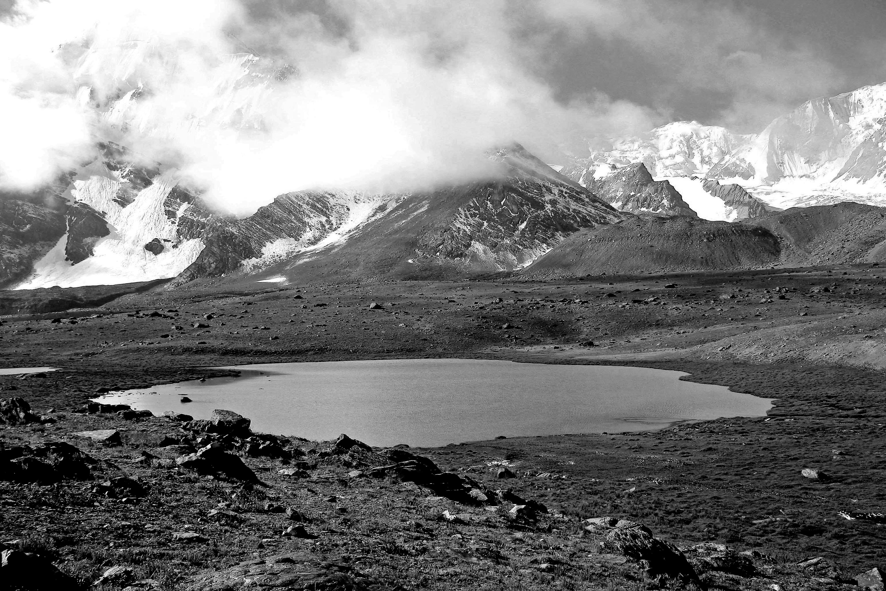 At the head of the valley is the 14,000 ft Karambar Pass in the Baroghil Valley of Upper Chitral and here is an unknown lake with 20,ooo ft peaks of the Hindu Raj Raange.